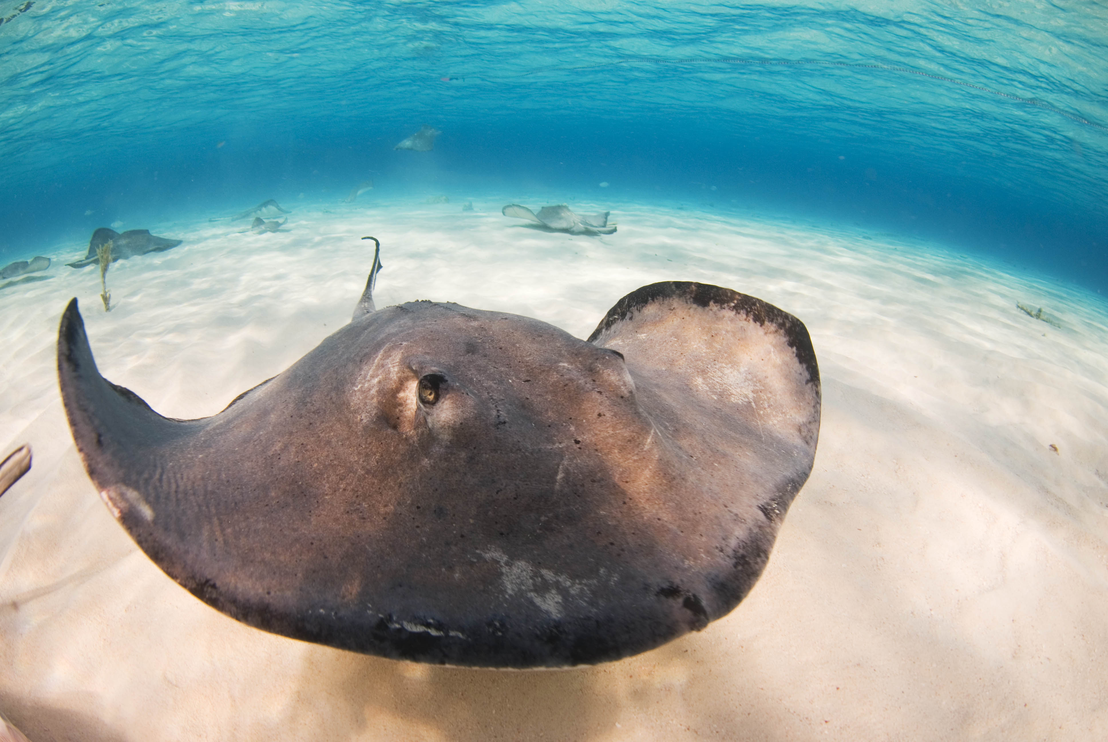 Dasyatis americana